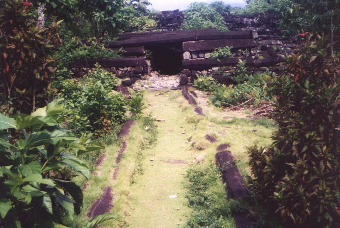 Ruins of Nan Mandol at island of Pohnpei.